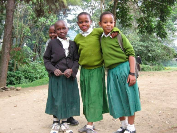 Over the past decade, Africa registered the highest relative increase in primary education in total enrollment among regions. Girls, however, were disproportionately enrolled at much lower rates.